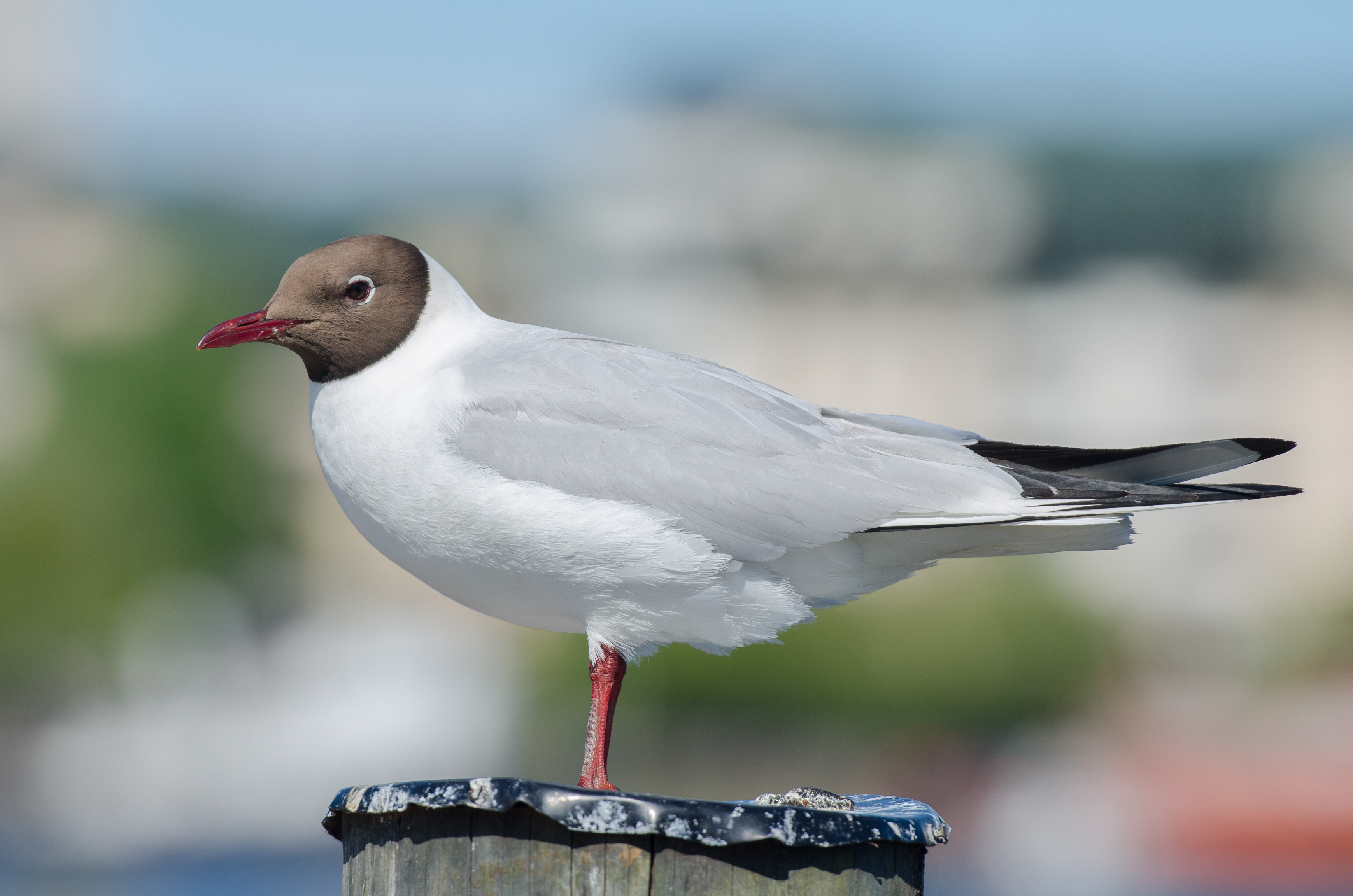 Black-headed Gull. Södra Hammarbyhamnen, Stockholm.